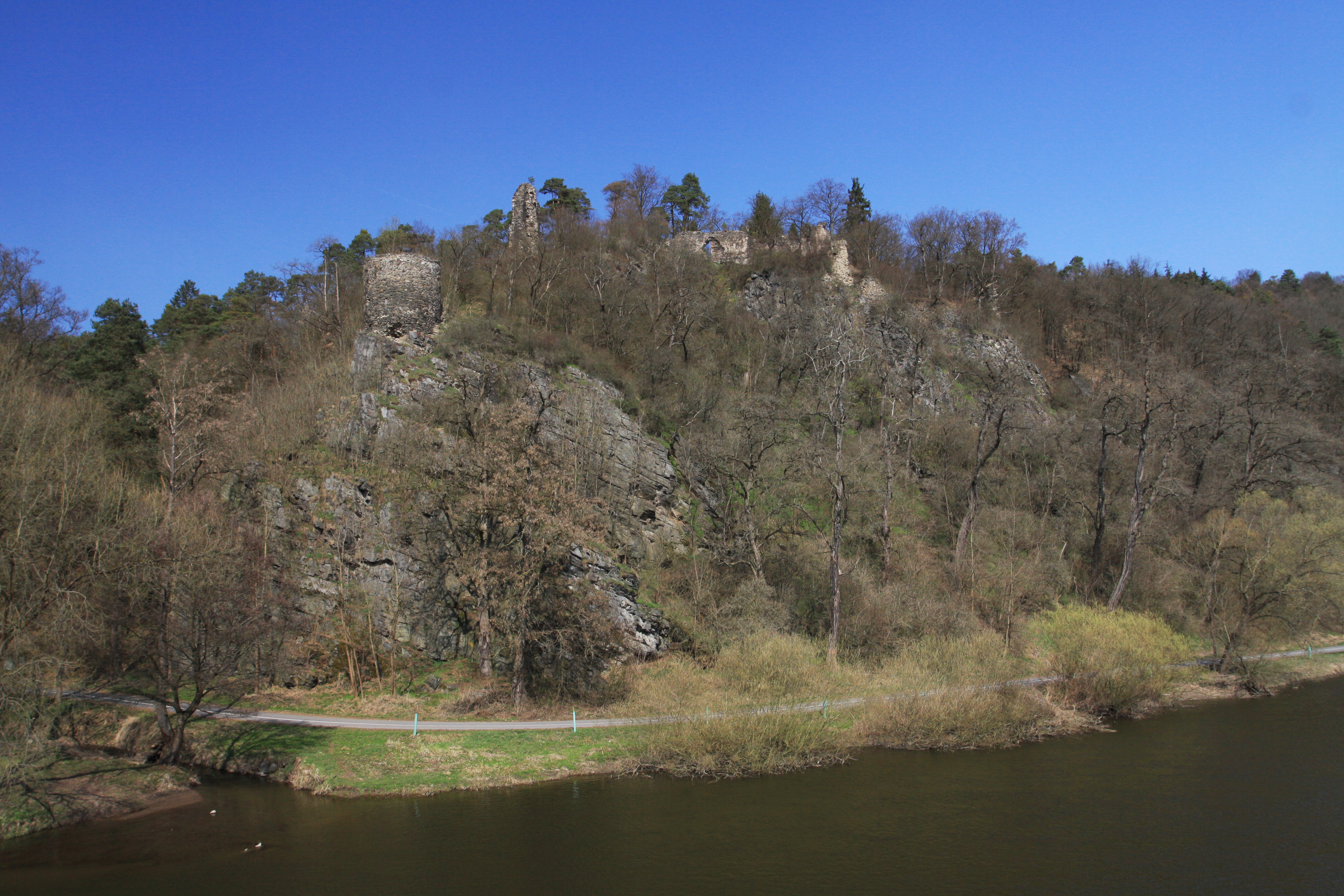 Zbořený Kostelec Castle in natuer reserve Čížov near Zbořený Kostelec Village in Benešov District, Czechia